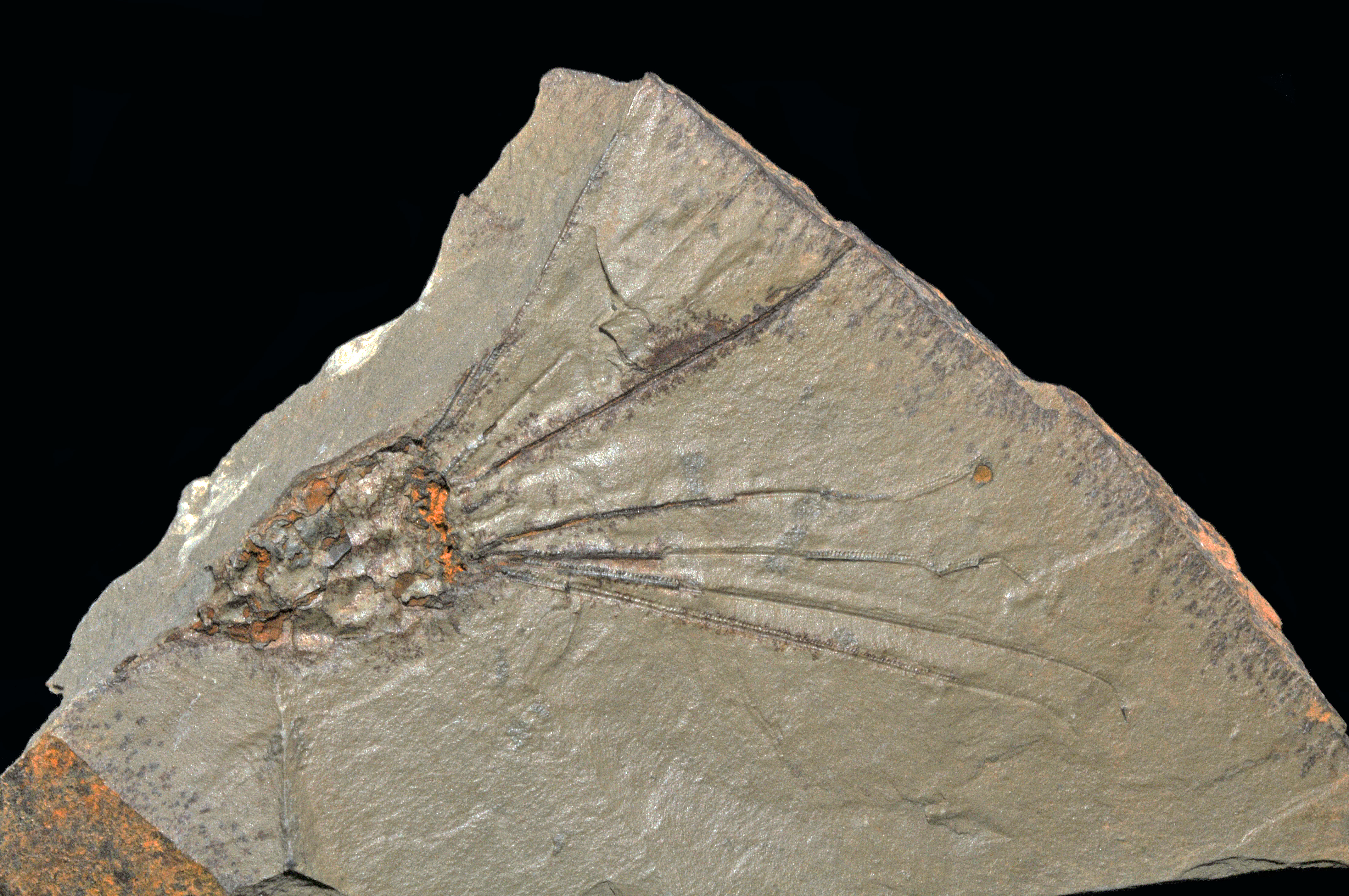 Gogia kitchnerensis Sprinkle 1973 : Spence Shale Upper Middle Cambrien (ca. 510-50 MY), Antimony Canyon, Utah - USA - 75 mm